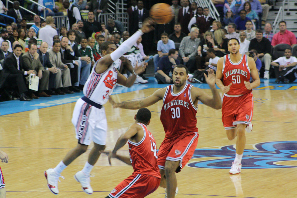 Chris Paul "really weird pass" over Malik Allen.